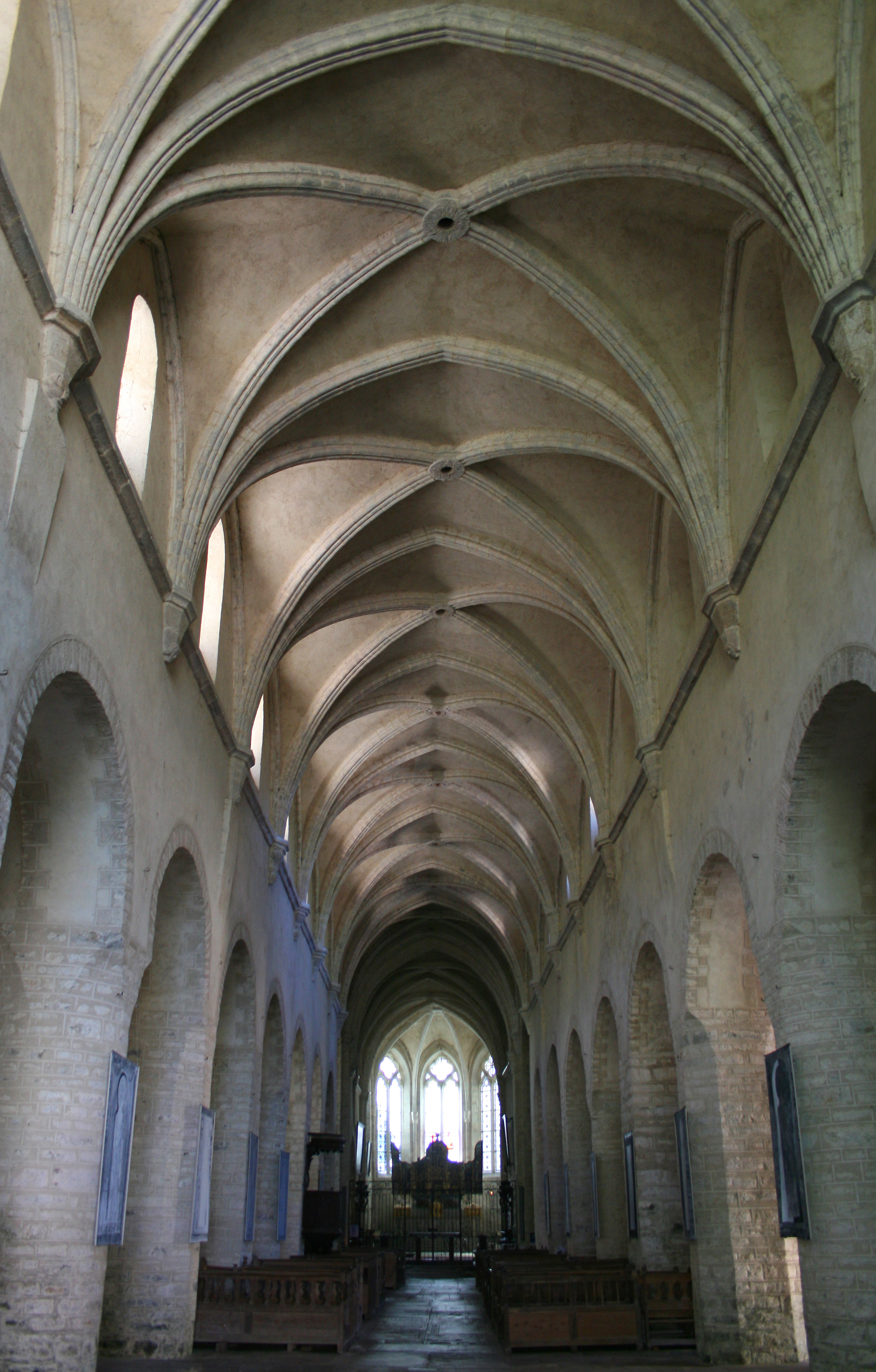 Baume-les-Messieurs (France), nave and choir of the former Baume Abbey church.